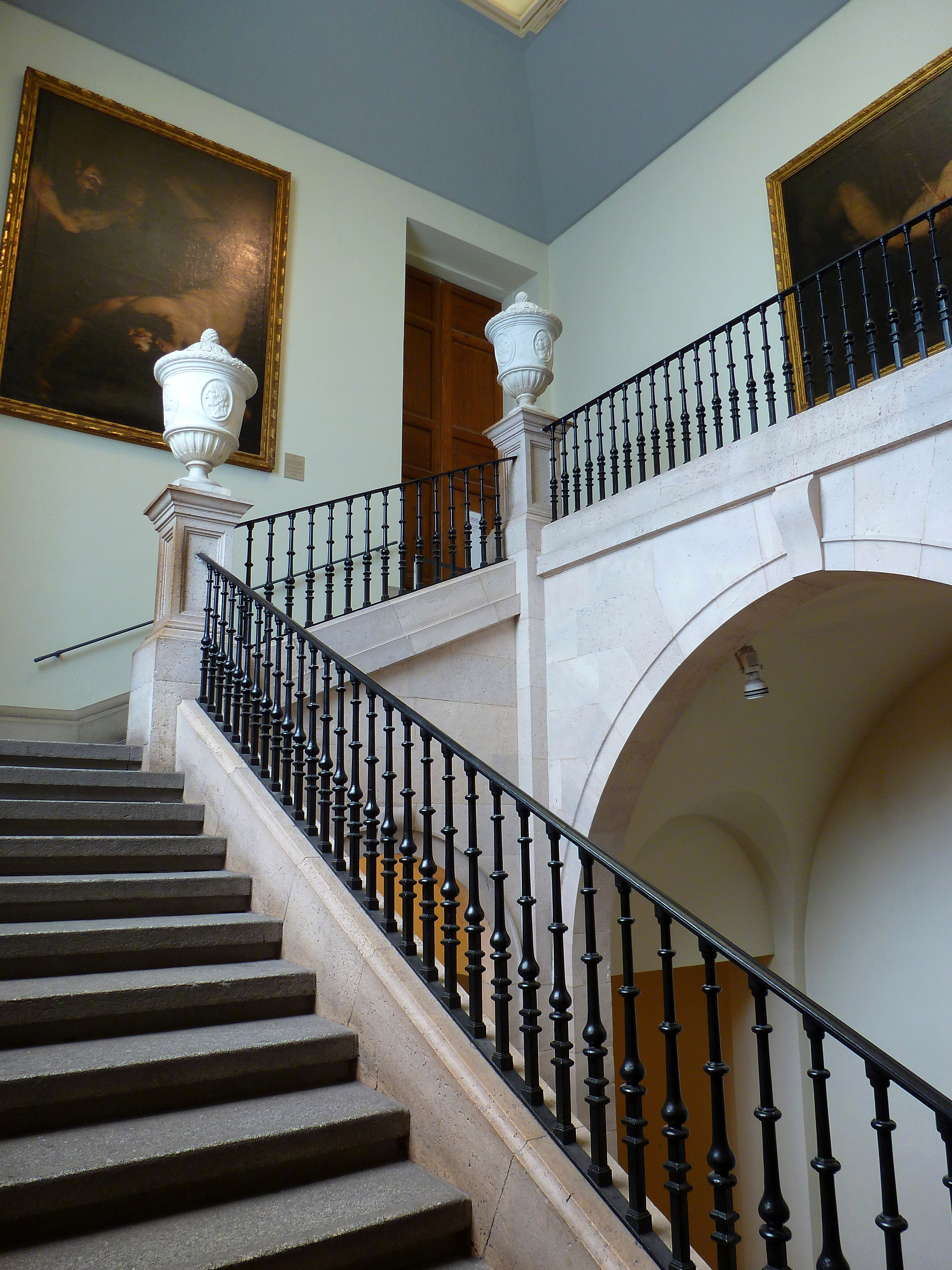 Central stairs of the Prado Museum.